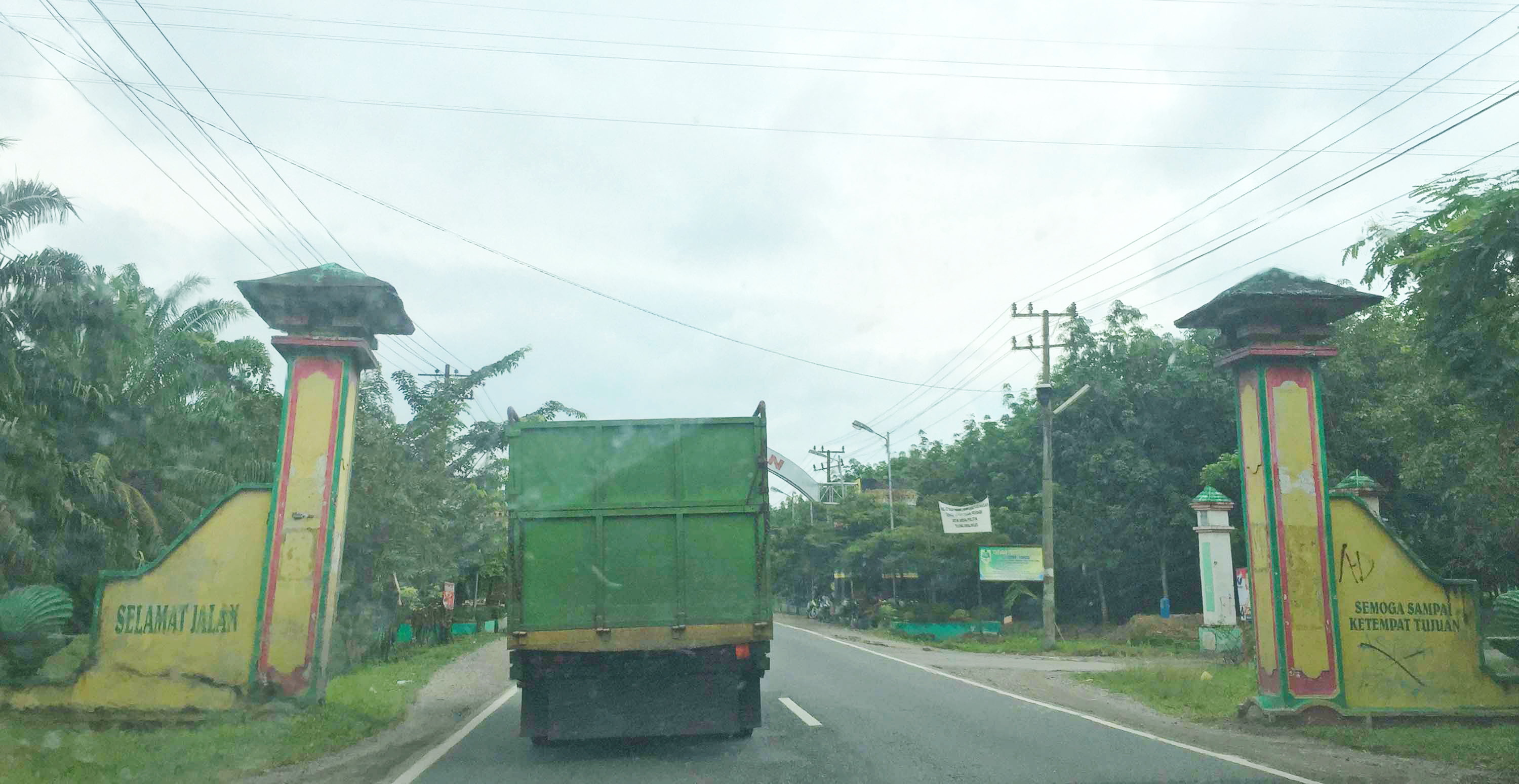 welcome gate to Kisaran Timur, Asahan